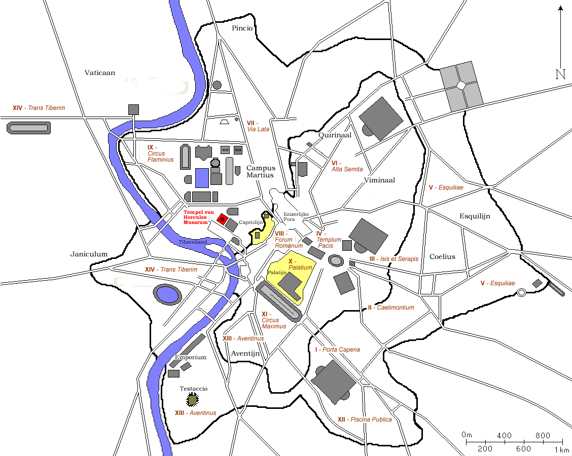 Temple of Hercules Musarum and Porticus of Philippus on a map of ancient Rome around 300 AD